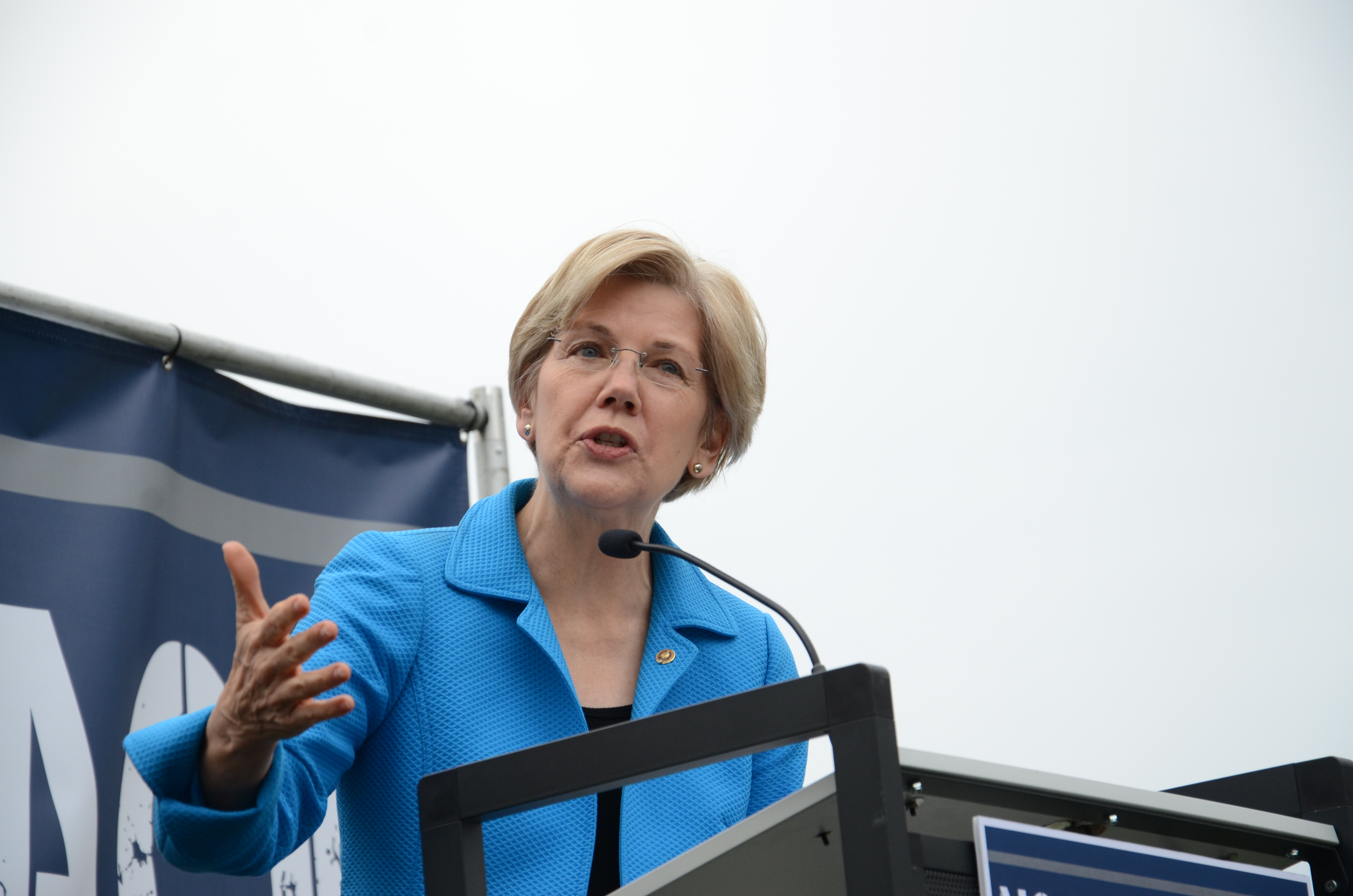 AFGE leaders, staffers and activists participate in #StopFastTrack rallies in the D.C. metro area during the month of April.